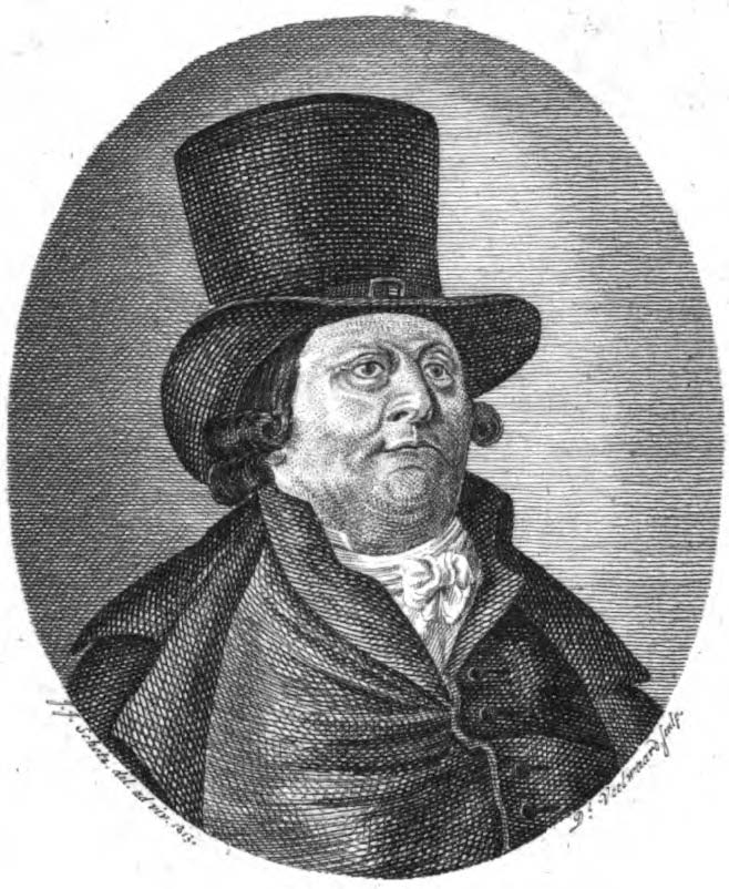 Dutch whaling captain Hidde Dirks Kat in 1813